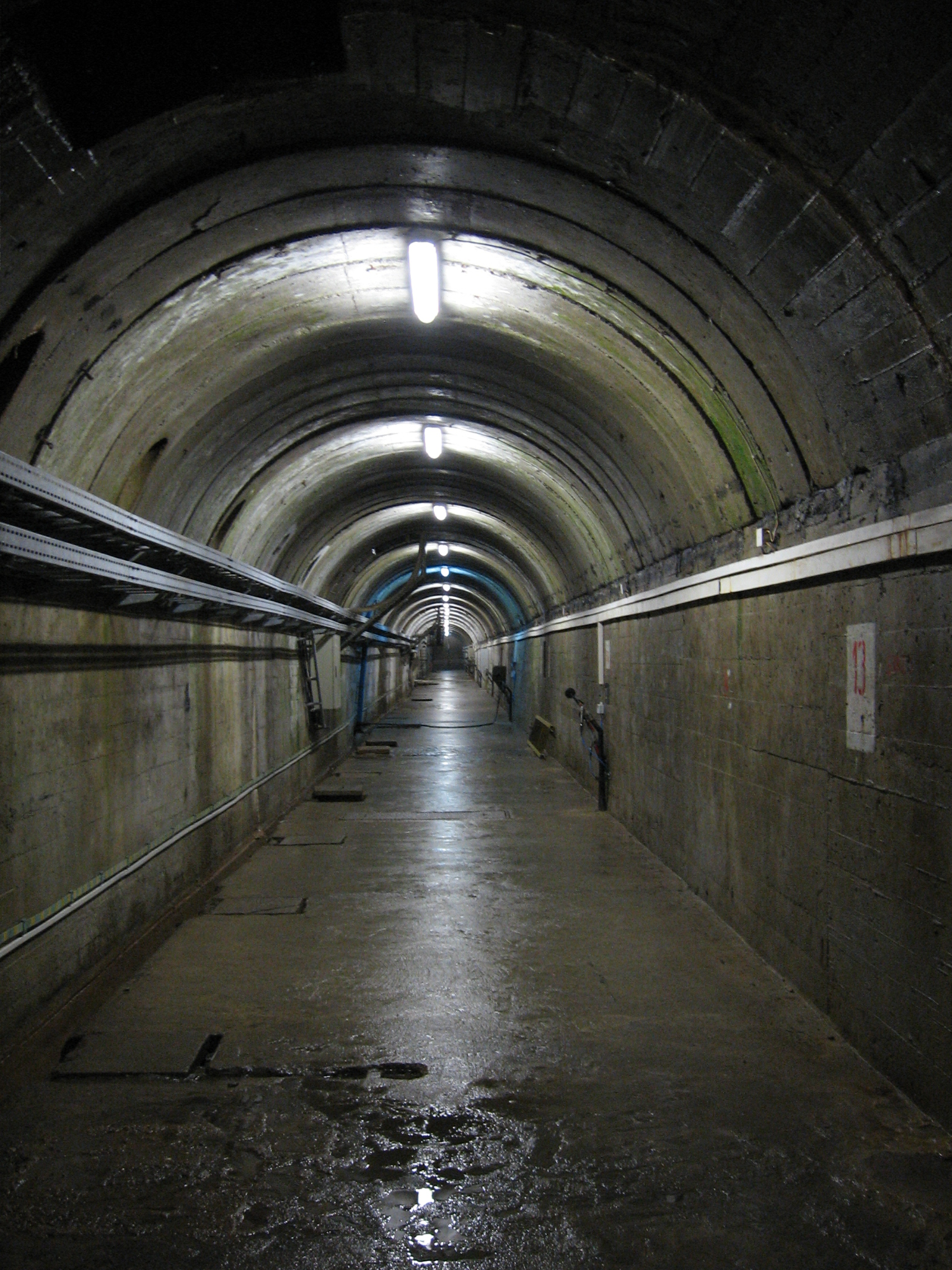 Tunnel in the Solina Dam